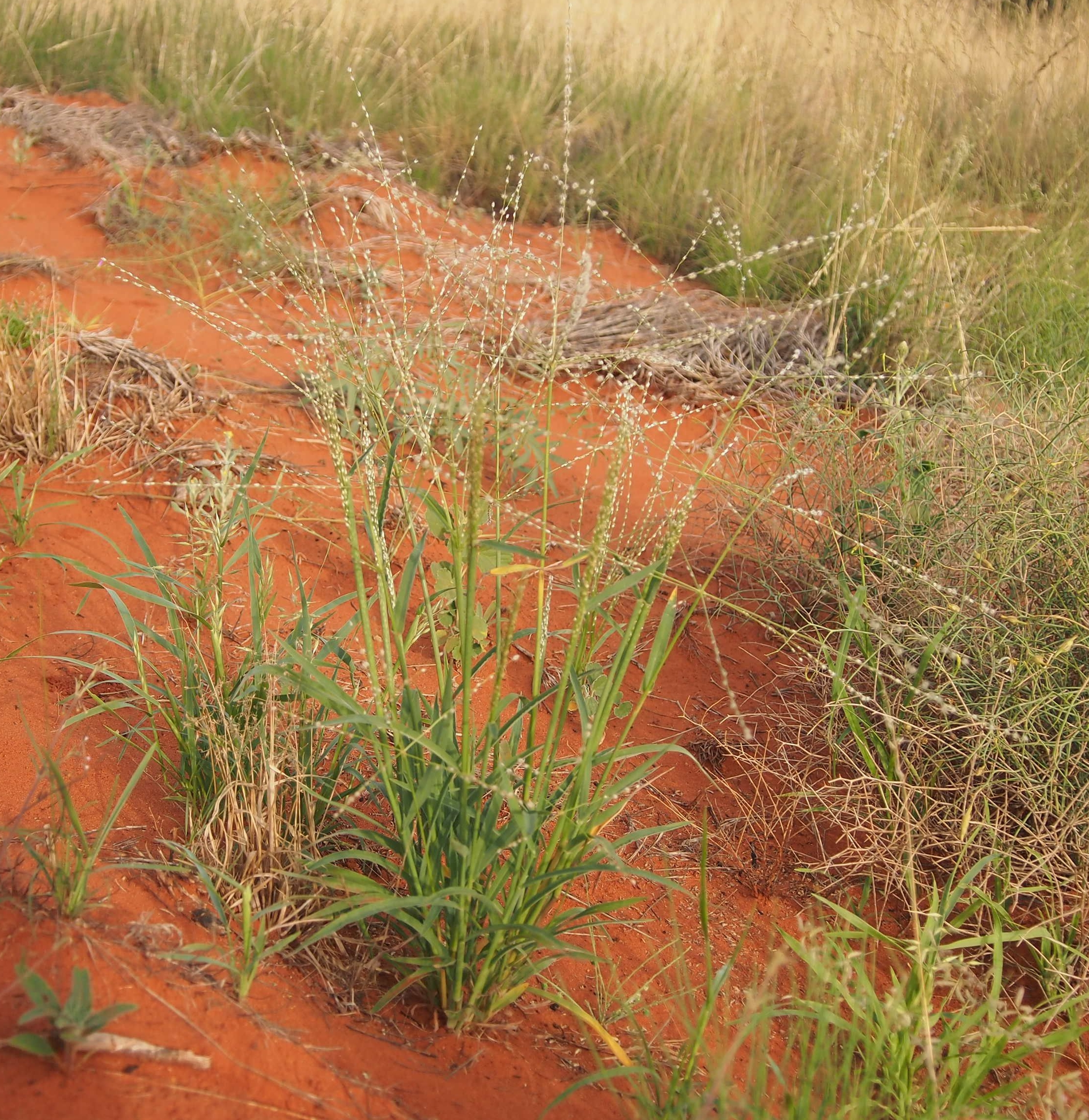 Digitaria coenicola